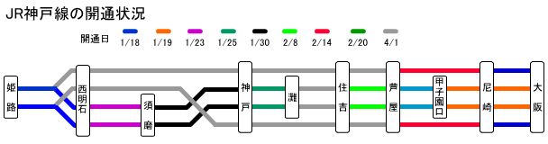 Resuming operations of JR Kobe Line after the Great Hanshin Earthquake